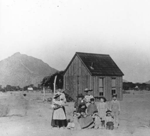 First Schoolhouse in Scottsdale, arizona. It was built in 1896 and replaced by a larger two-room schoolhouse (The Little Red Schoolhouse) in 1909.